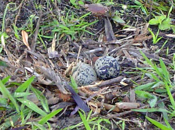 Nest of Southern Lapwing with two eggs. Taken in Bertioga, Brazil.